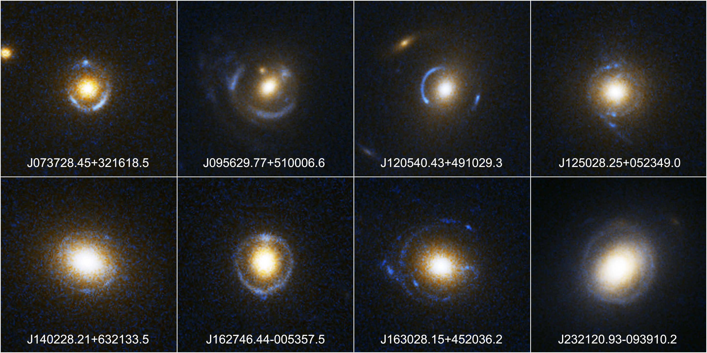 An assortment of Einstein rings photographed by Hubble Space Telescope in 2005. Cropped for use in Wikipedia article. Diameters of several rings in arcsec ( "THE SLOAN LENS ACS SURVEY" (2005) Adam S. Bolton): SDSS J003753.21-094220.1 2.16 ± 0.06 SDSS J021652.54-081345.3 3.05 ± 0.13 SDSS J073728.45+321618.5 2.16 ± 0.13 SDSS J081931.92+453444.8 2.32 ± 0.13 SDSS J091205.30+002901.1 3.36 ± 0.05 SDSS J095320.42+520543.7 1.77 ± 0.09 SDSS J095629.77+510006.6 2.33 ± 0.09 SDSS J095944.07+041017.0 1.21 ± 0.04 SDSS J102551.31-003517.4 4.05 ± 0.08 SDSS J111739.60+053413.9 2.49 ± 0.11 SDSS J120540.43+491029.3 2.30 ± 0.10 SDSS J125028.25+052349.0 1.76 ± 0.07 SDSS J125135.70-020805.1 3.64 ± 0.19 SDSS J125919.05+613408.6 1.94 ± 0.07 SDSS J133045.53-014841.6 0.84 ± 0.04 SDSS J140228.21+632133.5 2.67 ± 0.08 SDSS J142015.85+601914.8 2.17 ± 0.03 SDSS J154731.22+572000.0 2.56 ± 0.06 SDSS J161843.10+435327.4 1.34 ± 0.05 SDSS J162746.44-005357.5 2.08 ± 0.08 SDSS J163028.15+452036.2 2.02 ± 0.07 SDSS J163602.61+470729.5 1.48 ± 0.05 SDSS J170216.76+332044.7 2.80 ± 0.07 SDSS J171837.39+642452.2 3.67 ± 0.07 SDSS J230053.14+002237.9 1.76 ± 0.10 SDSS J230321.72+142217.9 3.02 ± 0.09 SDSS J232120.93-093910.2 3.92 ± 0.05 SDSS J234728.08-000521.2 1.78 ± 0.28